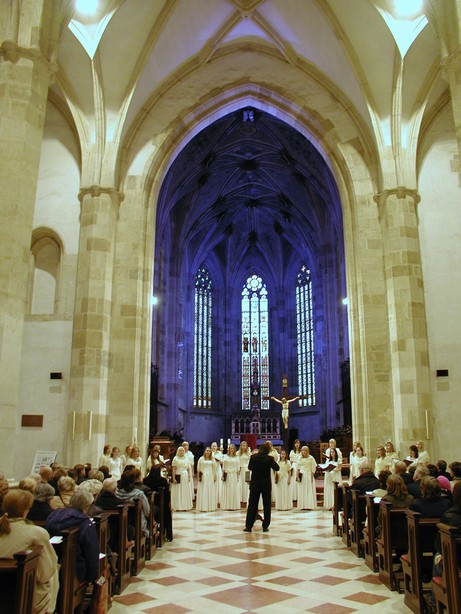 Estonian TV Girls' Choir at St Martin's cathedral in Bratislava